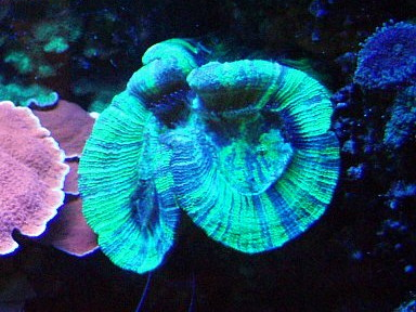 Scolymia sp. at Aquazoo-Löbbecke-Museum Düsseldorf